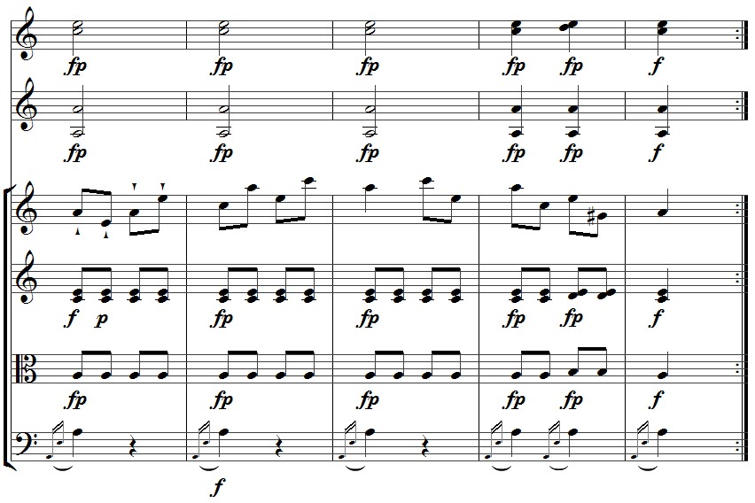 Image of notes for a passage of "Turkish" music from Mozart Violin Concerto No. 5, part 2 Image file created with Sibelius software by Opus33. This music is in the public domain. The image is not copyrighted, and it is hereby released by Opus33 into the public domain.